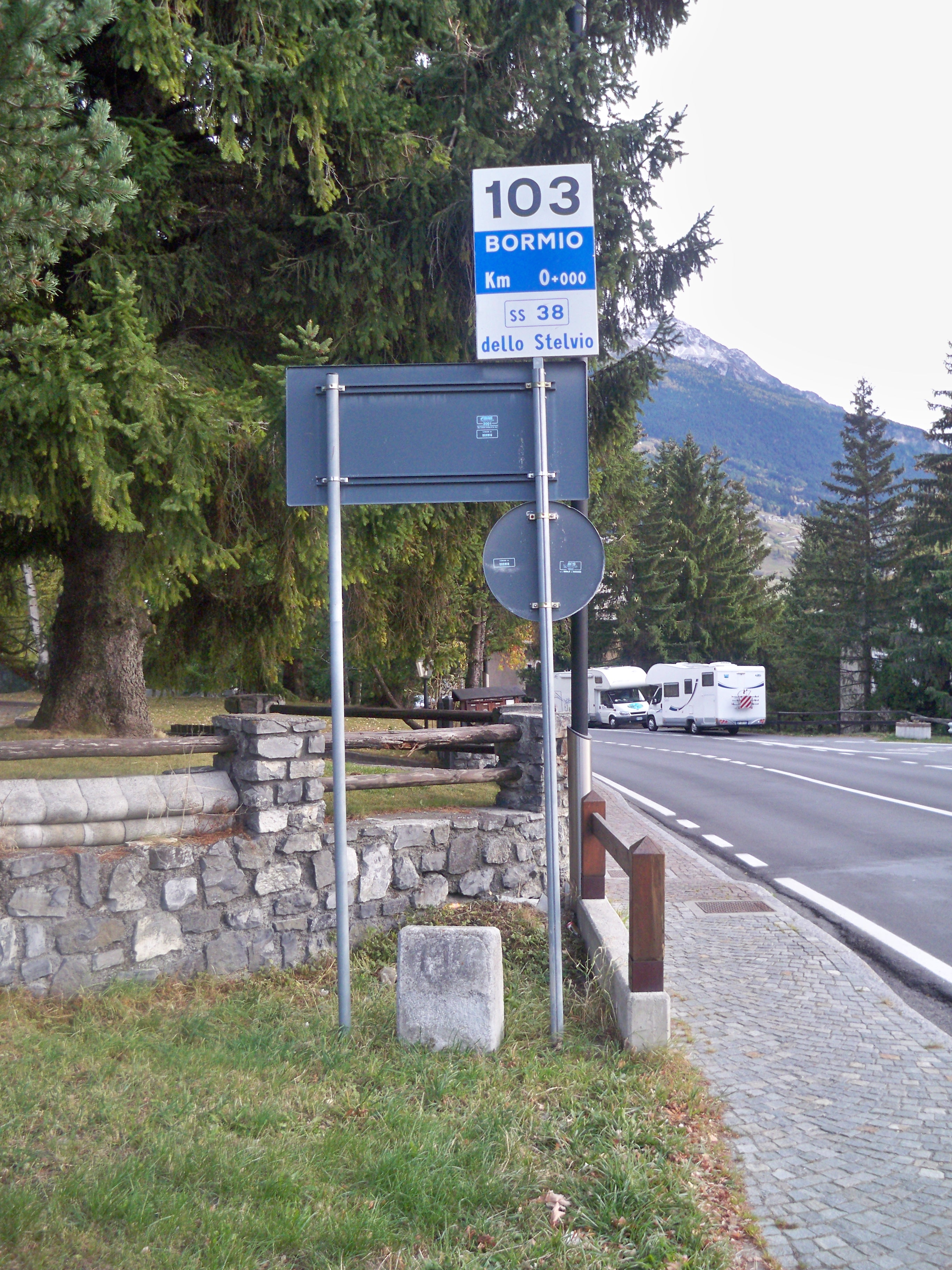 Strada Statale 38 dello Stelvio - Milestone; Bormio (SO), Italy